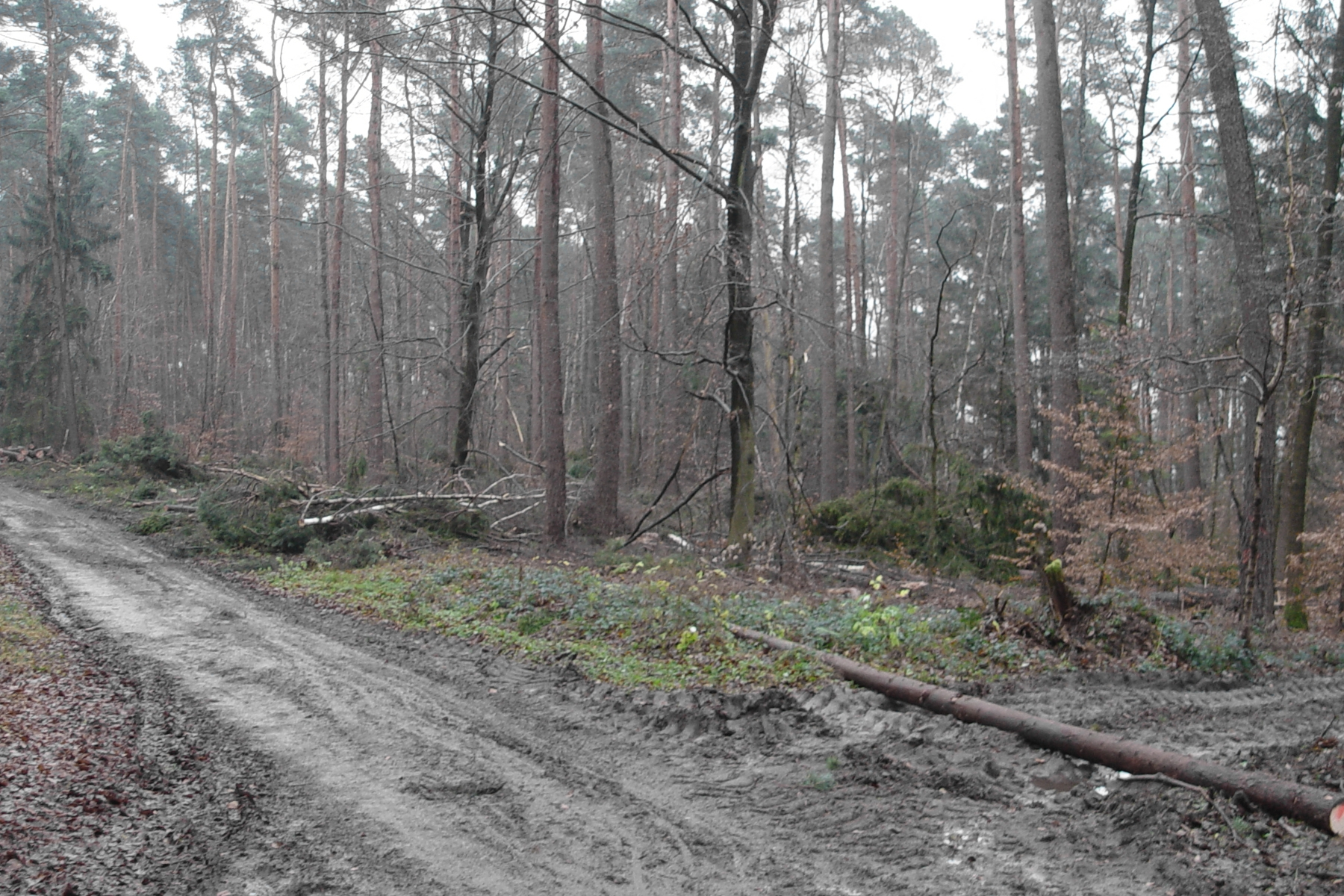 Aschaffenburg, deforestation in Spessart at Erbig